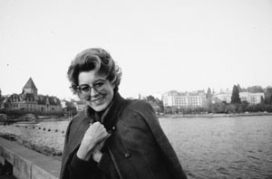 Lilian Uchtenhagen